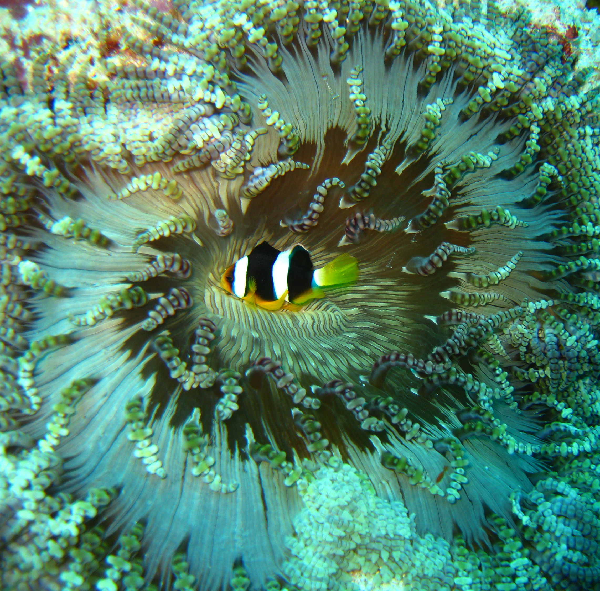 Clark's Anemonefish on a Beaded Anemone taken at Shameen Thila, Maldives.